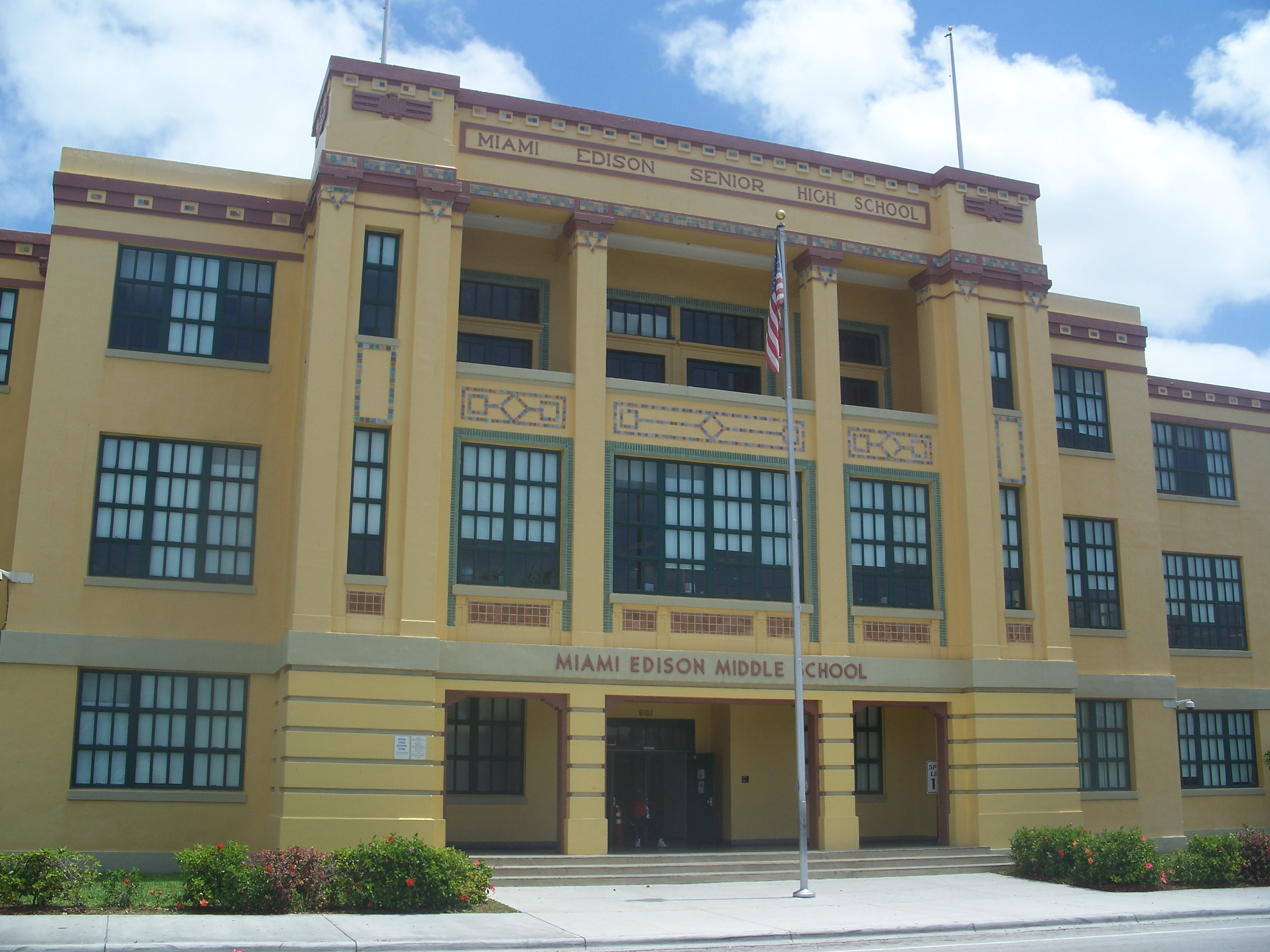 Miami Edison Middle School (previously Miami Edison High School)